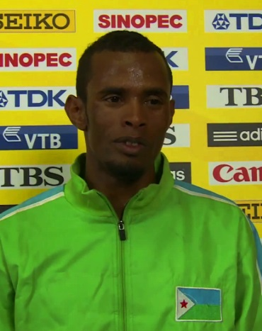 Hassan Ayanleh Souleiman in 2013